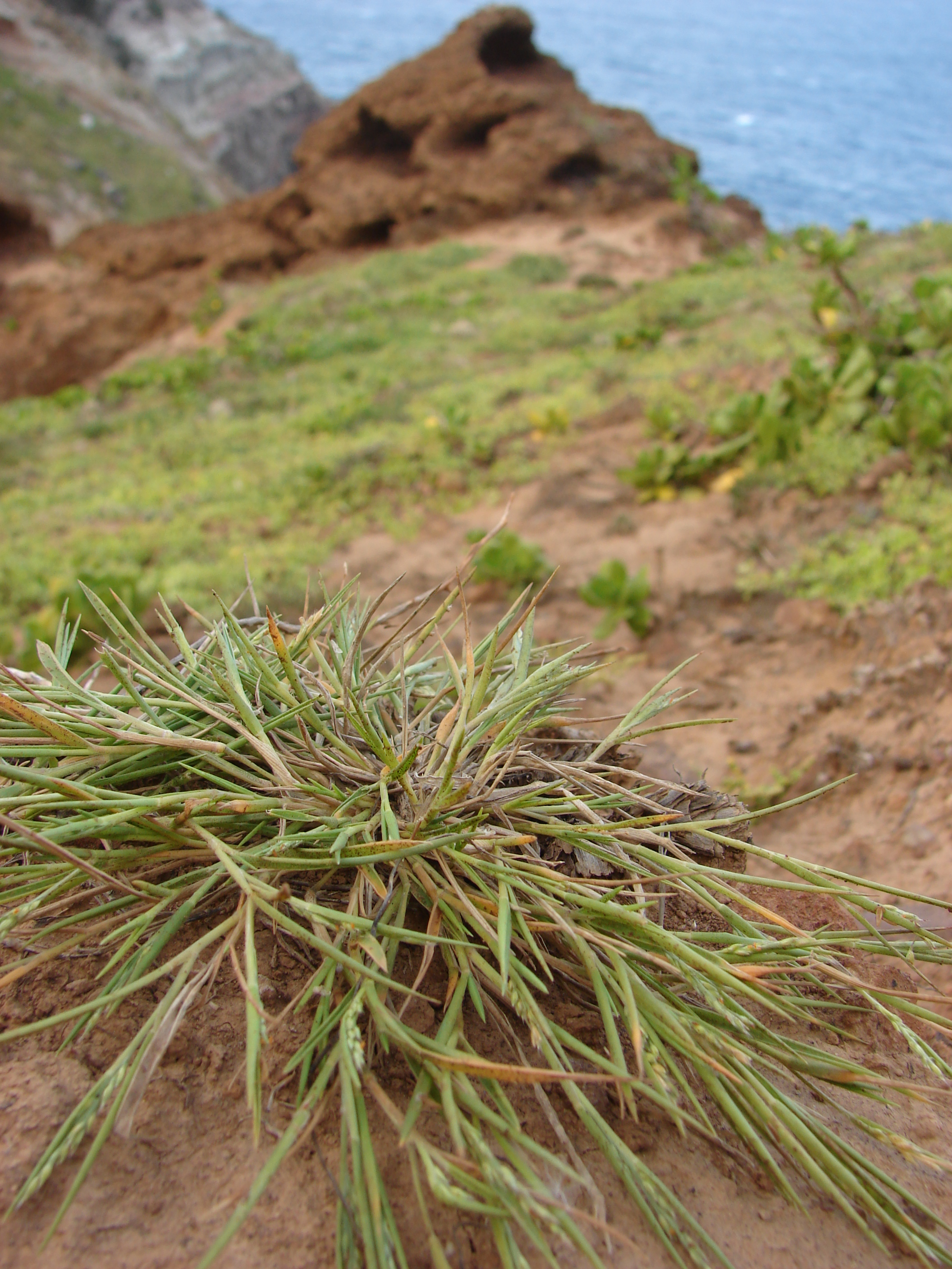 Panicum fauriei (habit). Location: Maui, Kahakuloa